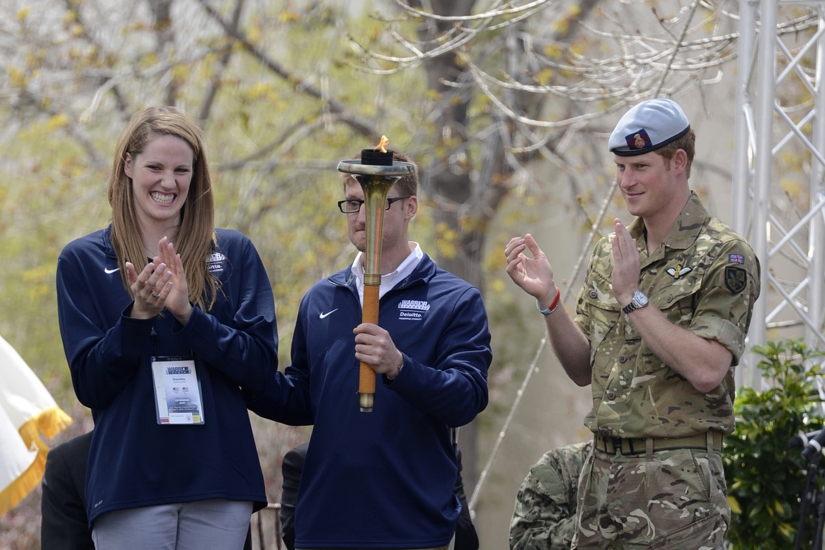 Olympian Missy Franklin, paralympian gold medal winner Navy Lt. Bradley Snyder and Prince Harry prepare to light the official torch to begin the 2013 Warrior Games at the U.S. Olympic Training Center in Colorado Springs, Colo., May 11, 2013. From May 11-16, more than 200 wounded, ill and injured servicemembers and veterans from the U.S. Marines, Army, Air Force and Navy, as well as a team representing U.S. Special Operations Command and an international team representing the United Kingdom, will compete for the gold in track and field, shooting, swimming, cycling, archery, wheelchair basketball and sitting volleyball at the U.S. Olympic Training Center and U.S. Air Force Academy. The military service with the most medals will win the Chairman's Cup.